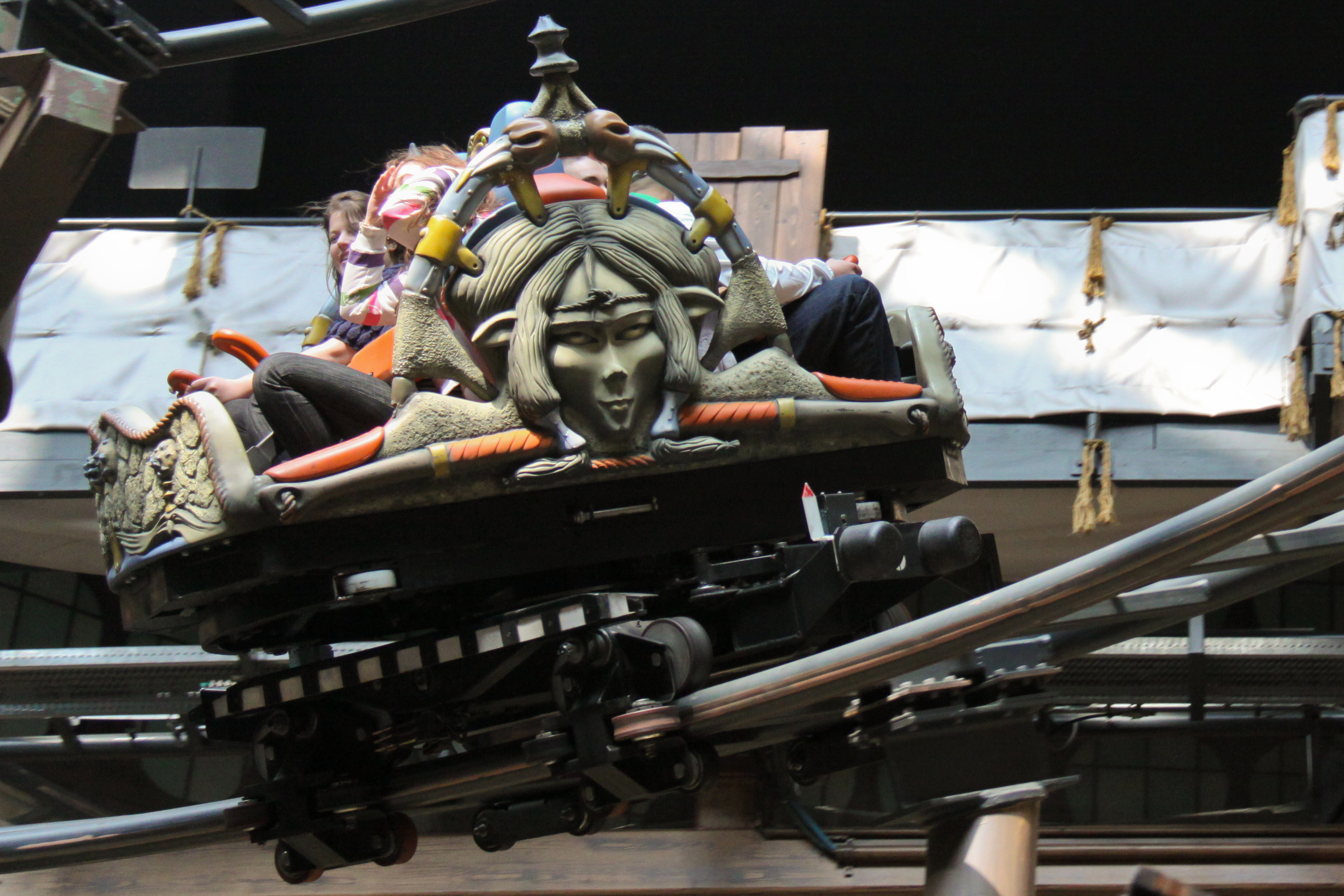 Coaster car of the roller coasters Winjas at Phantasialand